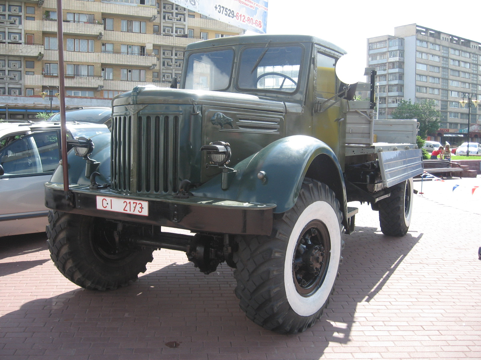 MAZ-502 - 4x4 variant of MAZ-200 truck.